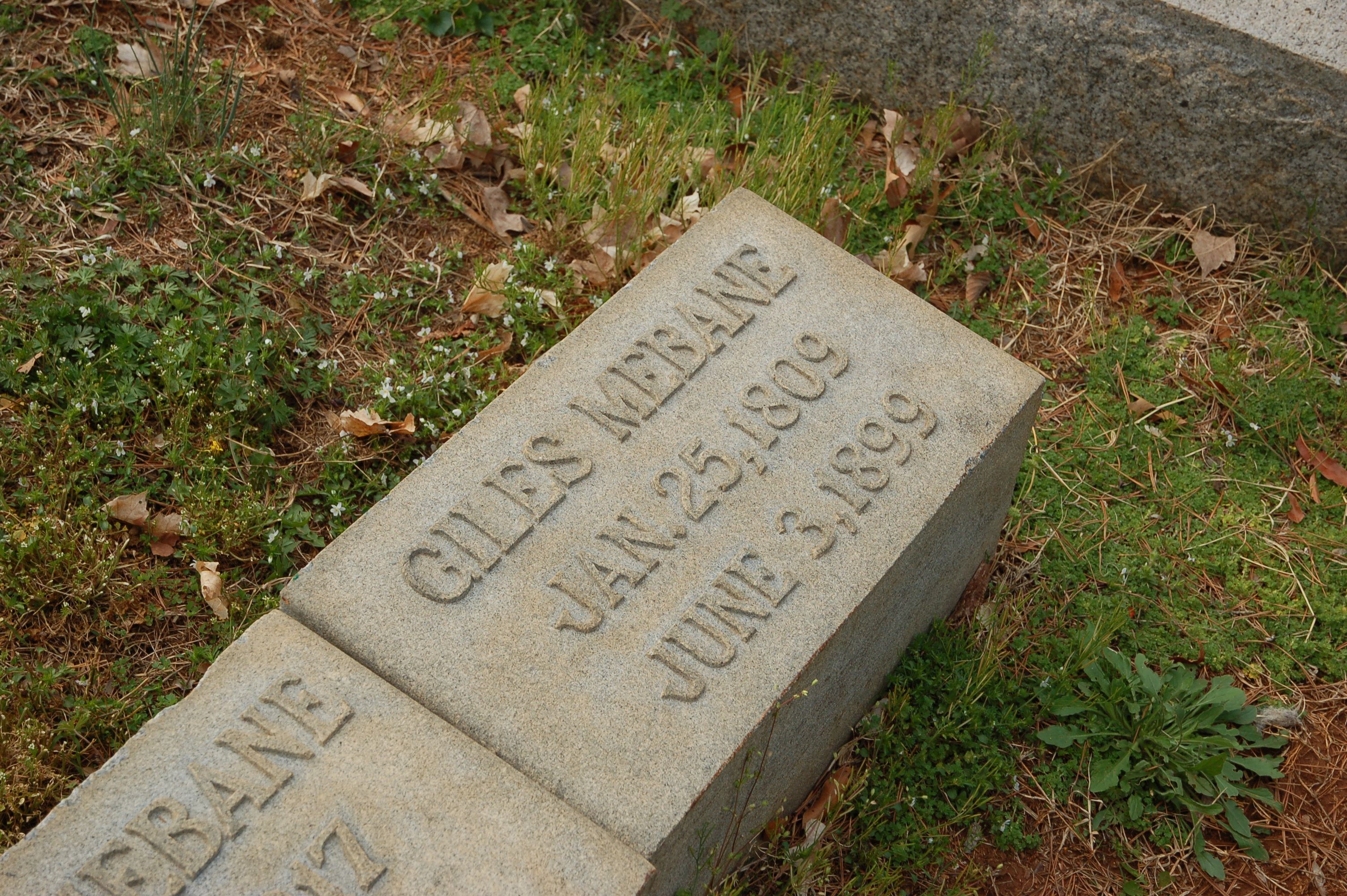 Picture of Giles Mebane's Tombstone in Linwood Cemetary, Graham, NC